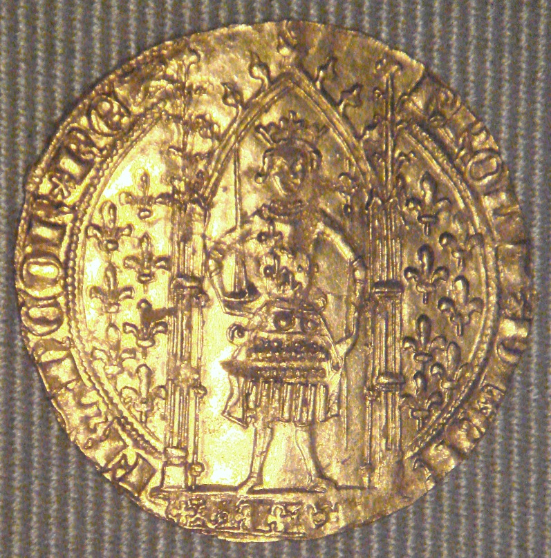 Charles_V_Franc_a_pied_1365